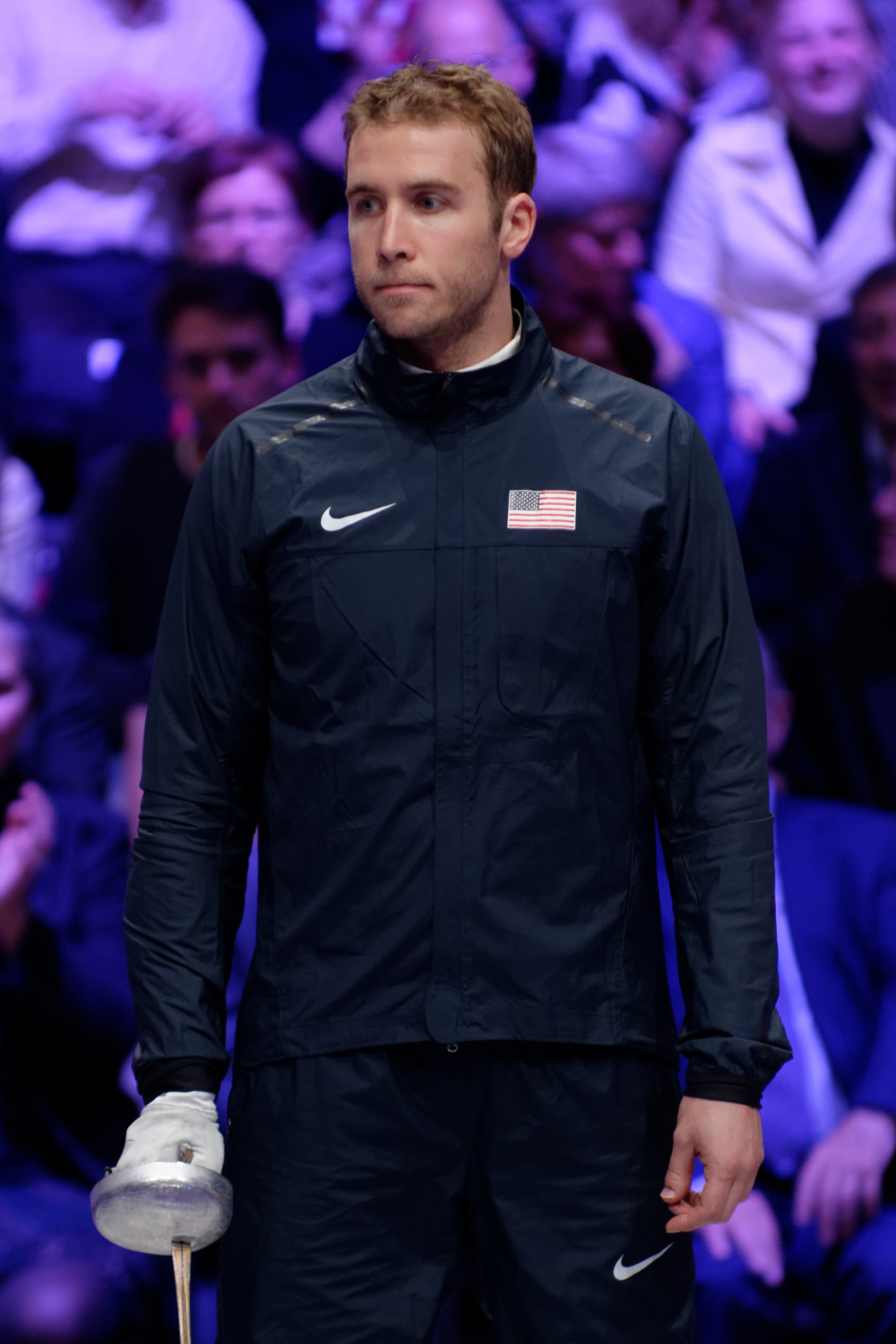 Soren Thompson during the quarter-finalists' presentation in the T64 in the Challenge Réseau Ferré de France–Trophée Monal 2013, a men's épée FIE World Cup competition. Louvre Carrousel, Paris.